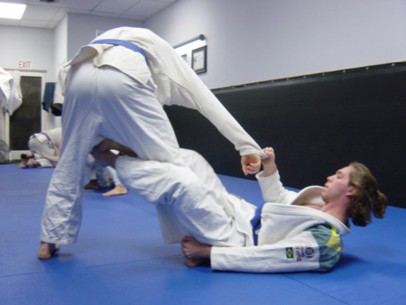 I am releasing this photograph from under the Creative Commons license. It taken at Gracie Barra Tampa, a Brazilian jiu-jitsu academy, and given to me freely for the academy website.